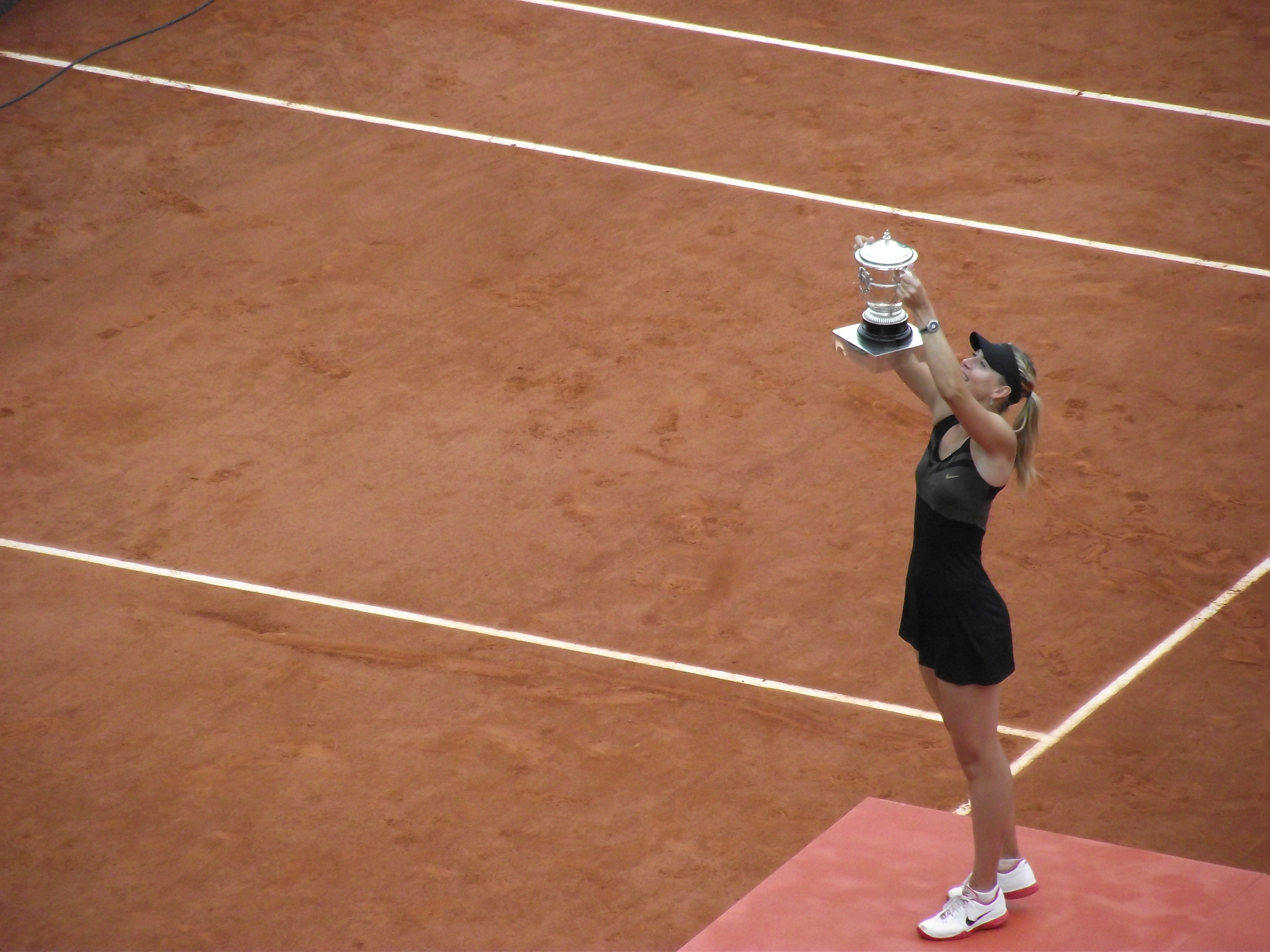 Russian Maria Sharapova at 2012 French Open. 2012 Roland Garros, Paris, France.